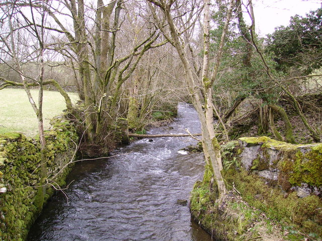 River Winster near Barkbooth From the bridge on the road to Hartbarrow